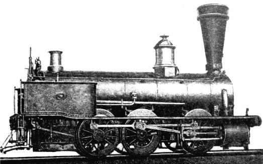 Russian locomotive T series, Kolomna works, 1 type, 1870